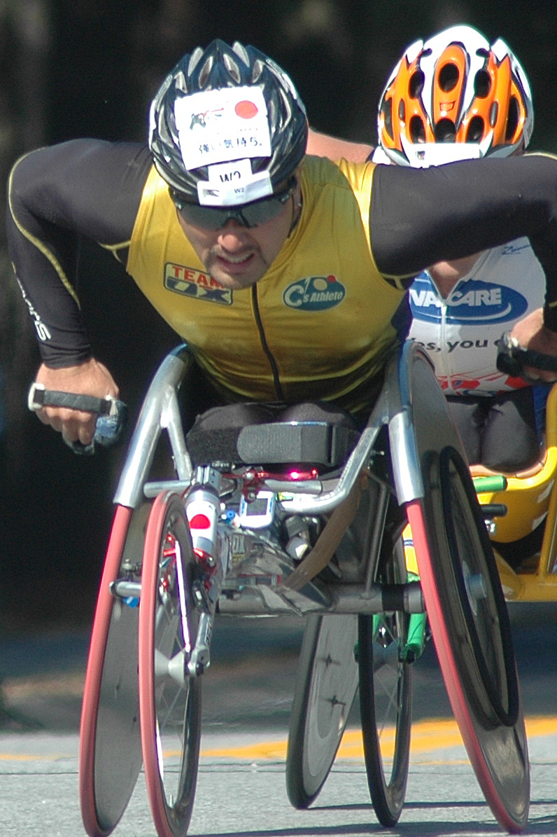 Masazumi Soejima who won the men's wheelchair division of the Boston Marathon in 2011 seen here near the halfway point in Wellesley Square.